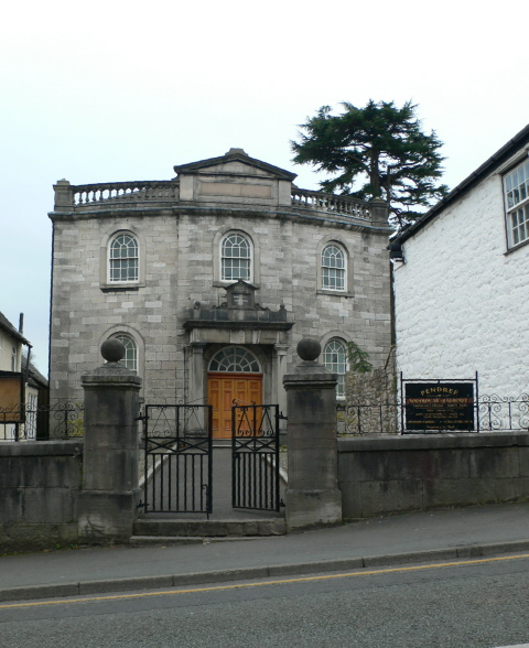 Capel Pendref, Rhuthun Independent chapel on Well Street, Ruthin, near the top of the town. It is now the oldest chapel in Ruthin having been built in 1827. The white building next door was the printing shop belonging to Isaac Clarke, who was the first to publish the Welsh National Anthem in a book, "Gems of Welsh Melody", in 1860.